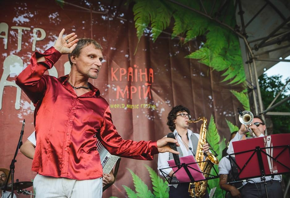 Wiki KM 003